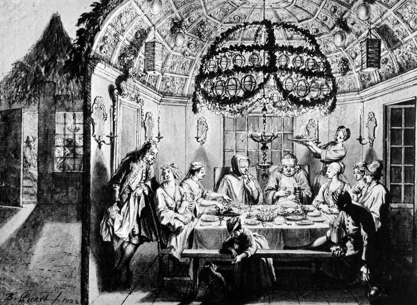 Sukkah meal. Amsterdam, 1722 by Bernard Picart